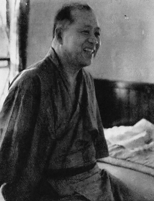 Toyokichi Hata